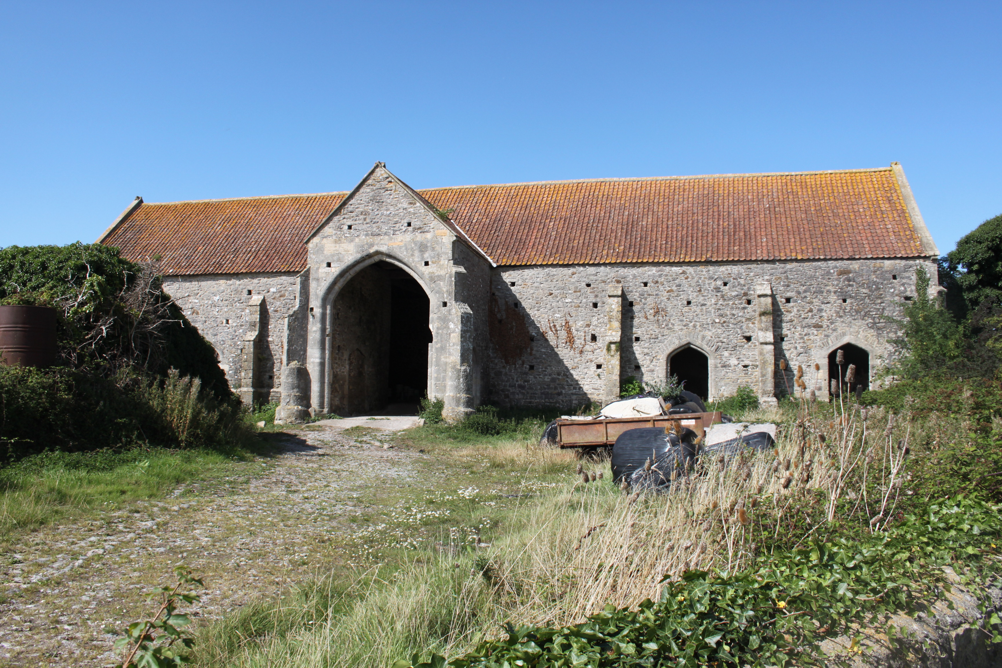 Barn circa 50 metres north west of priory church, Woodspring Priory